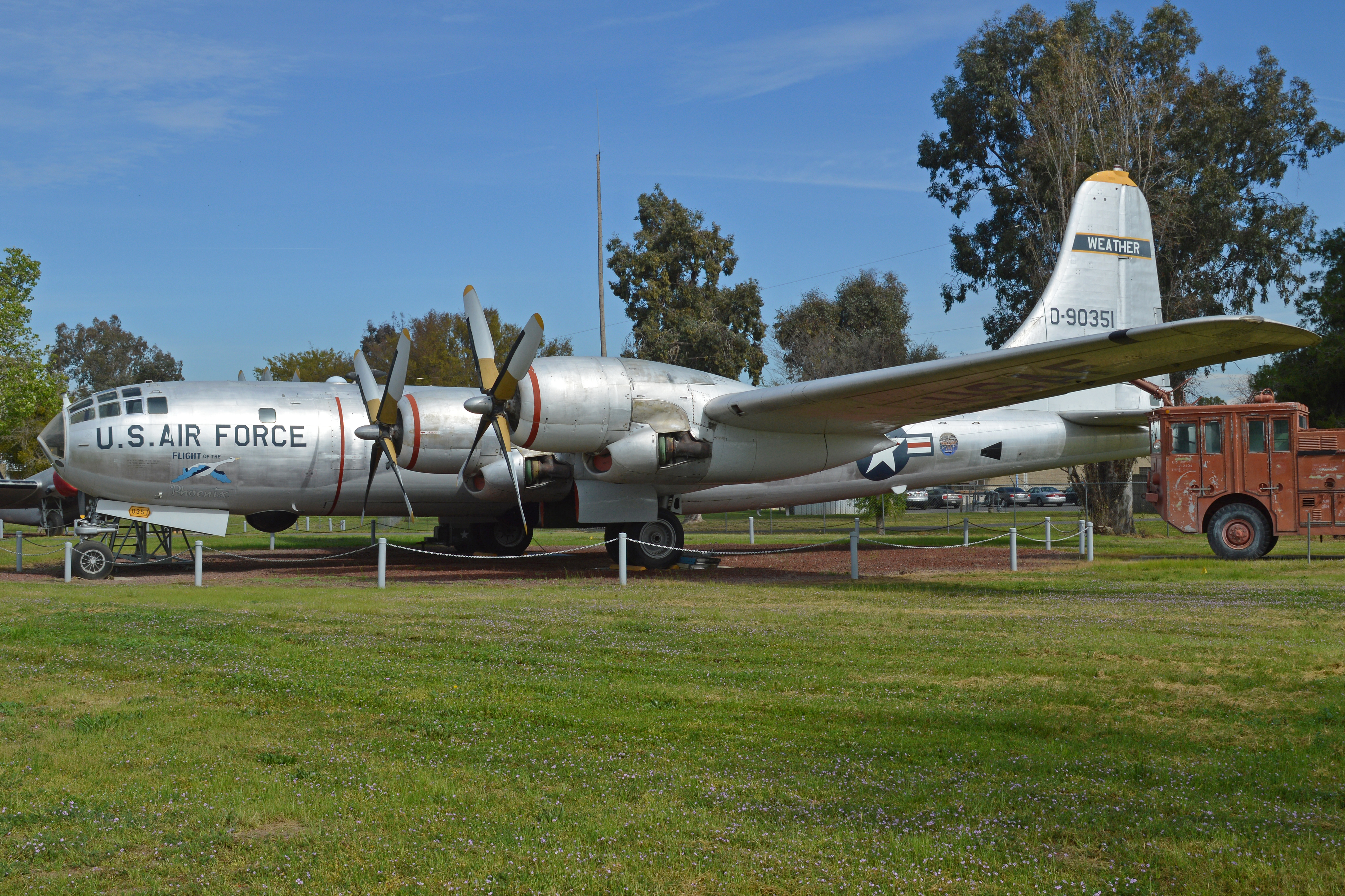 c/n 16127. Full US military serial 49-0351. One of only six remaining B-50s, she last served as a WB-50D weather reconnaissance aircraft. Between 1953 and 1955 some WB-50 flights were highly classified atmospheric sampling missions, used to detect Soviet detonation of atomic weapons. Retired to MASDC in 1965, she moved to the Pima Air Museum in 1972 before making the journey to Castle in 1980 where she remains on display as part of the Castle Air Museum. Atwater, CA. 4th March 2016